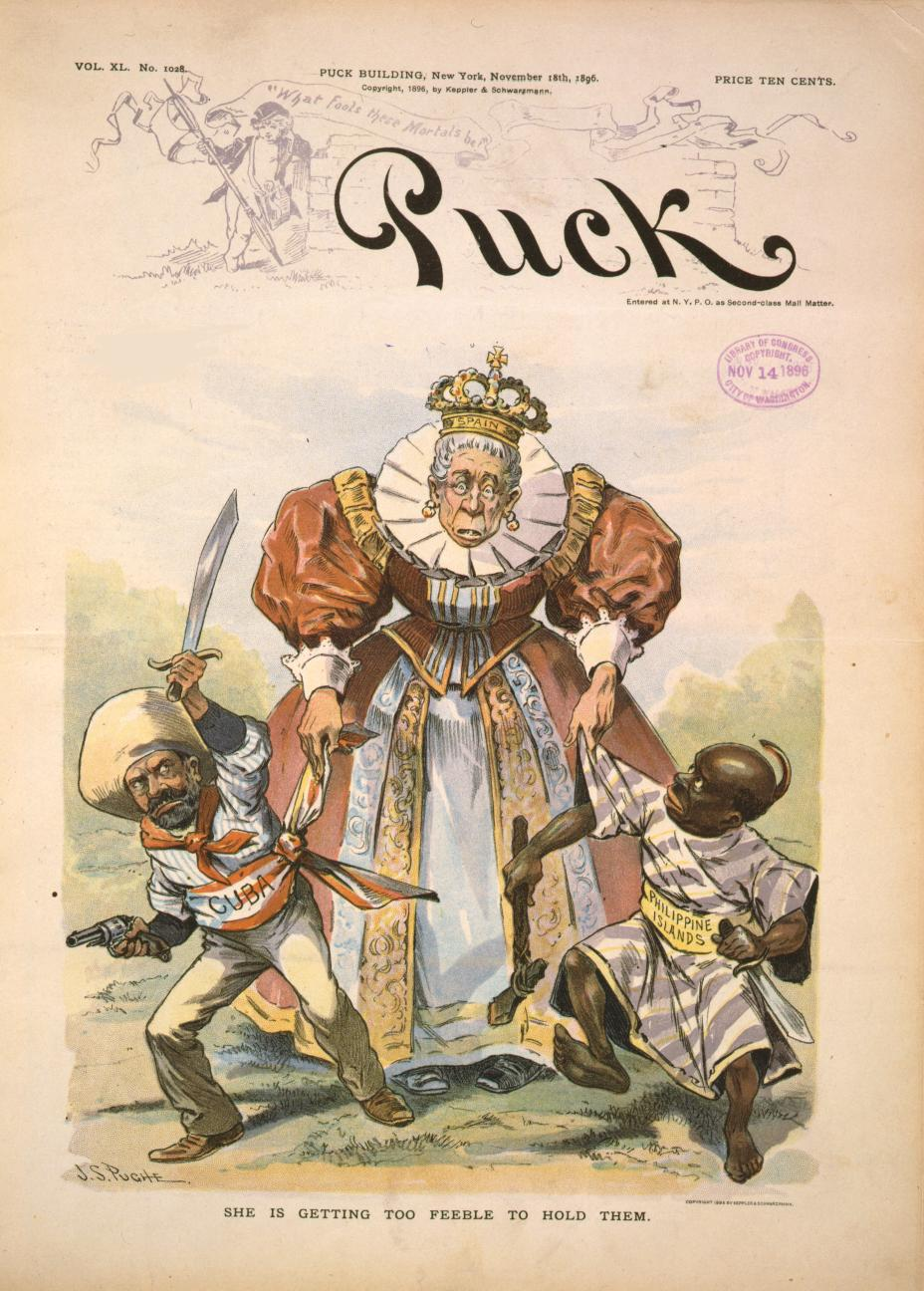 Cover of the November 16, 1896 issue of Puck magazine titled "She is getting too feeble to hold them," depicting Spanish queen Maria Christina of Austria struggling to hold two strong boys, "Cuba" and "Philippine Islands" from trying to free themselves.